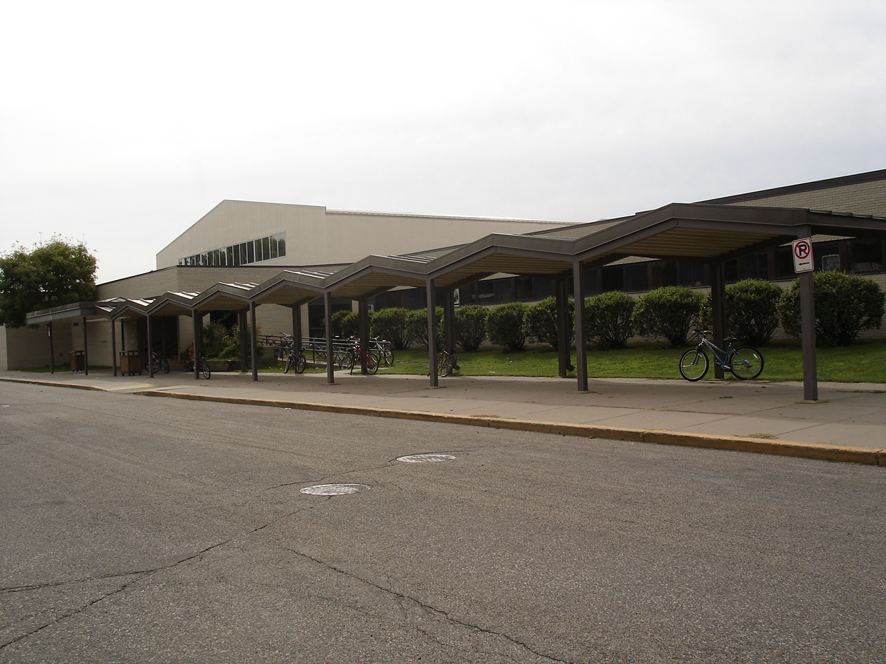 View of Como Park Senior High School in St. Paul, Minnesota